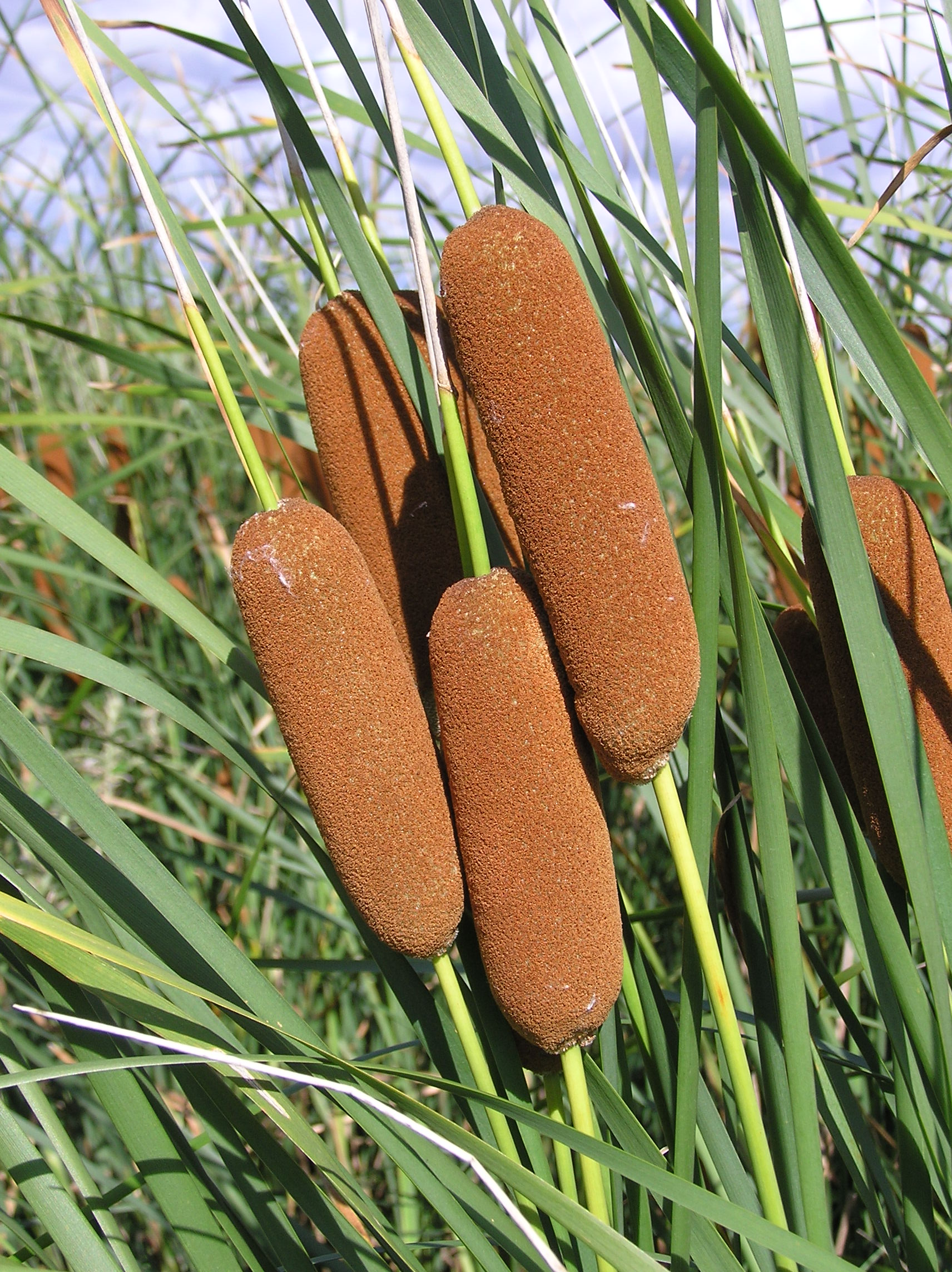 Typha laxmannii Lepech. Habitat: along a spring in steppe. Vicinity of Saratov city, Russia.